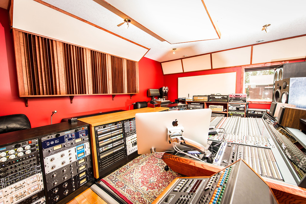 Beach Road Studios Control Room at Beach Road Studios owned by Siegfried Meier